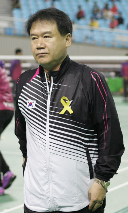 Lee Deuk Choon at the 2014 Badminton Asia Championships in Gimcheon